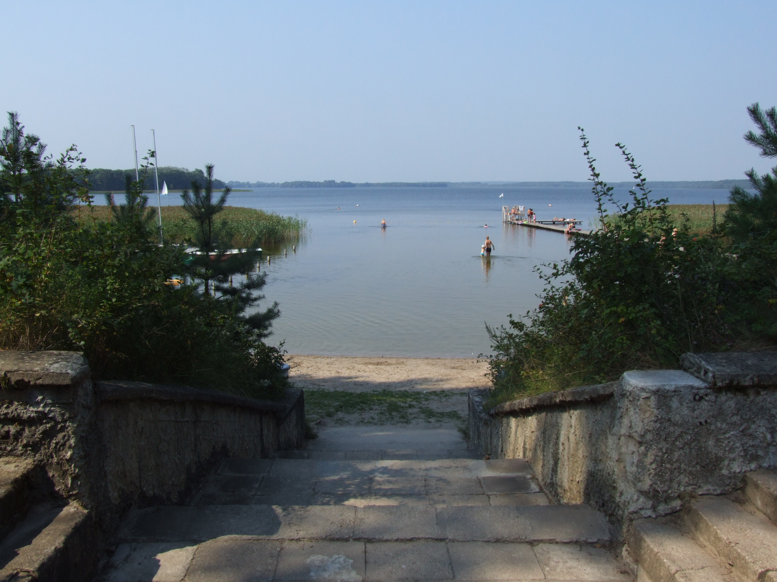 Łaśmiady Lake (Laschmieden See) and beach in Malinówka Wielka (Groß Malinowken)